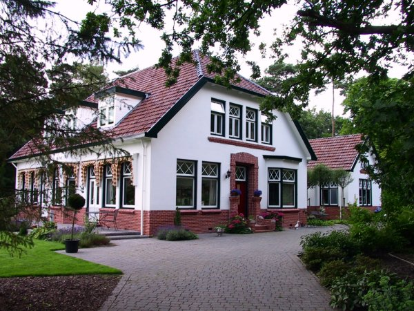 Picture of De Zulthe